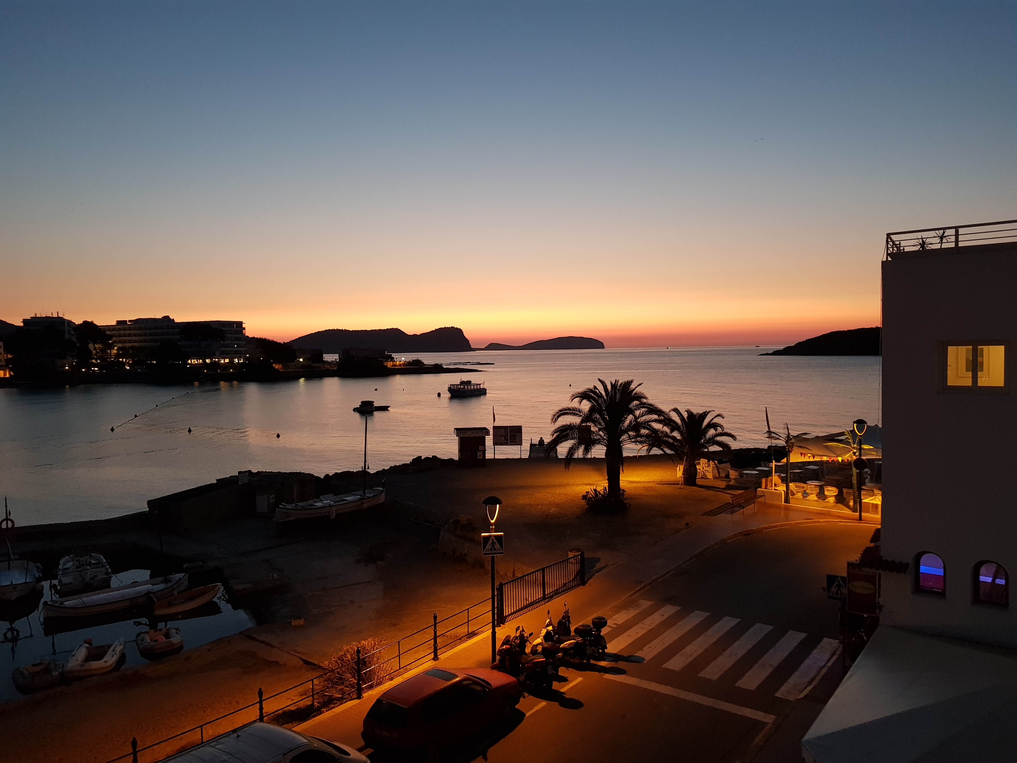 Sunrise over Es Canar bay